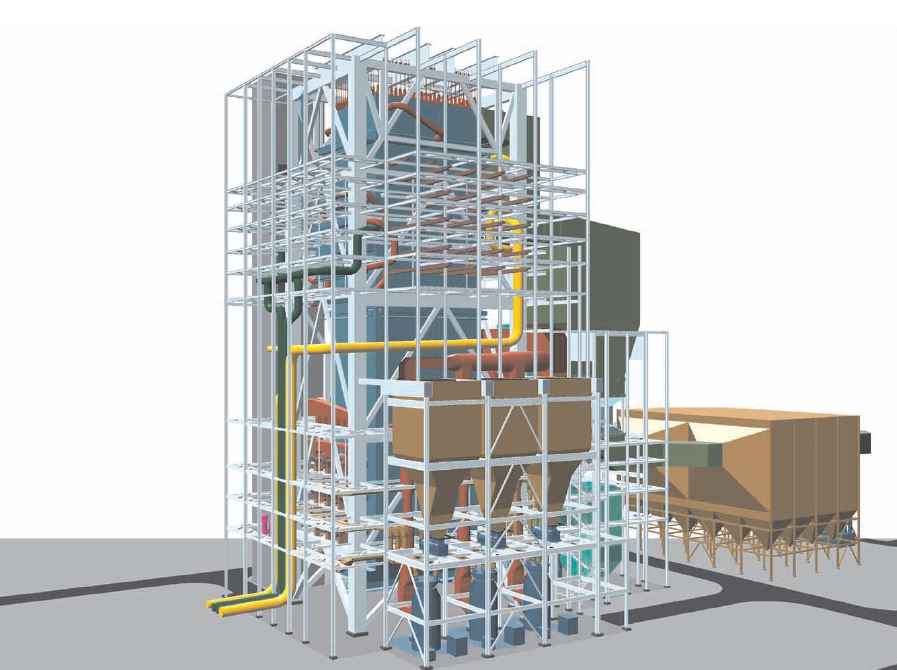 Steam boiler and framework of a coal fired power station